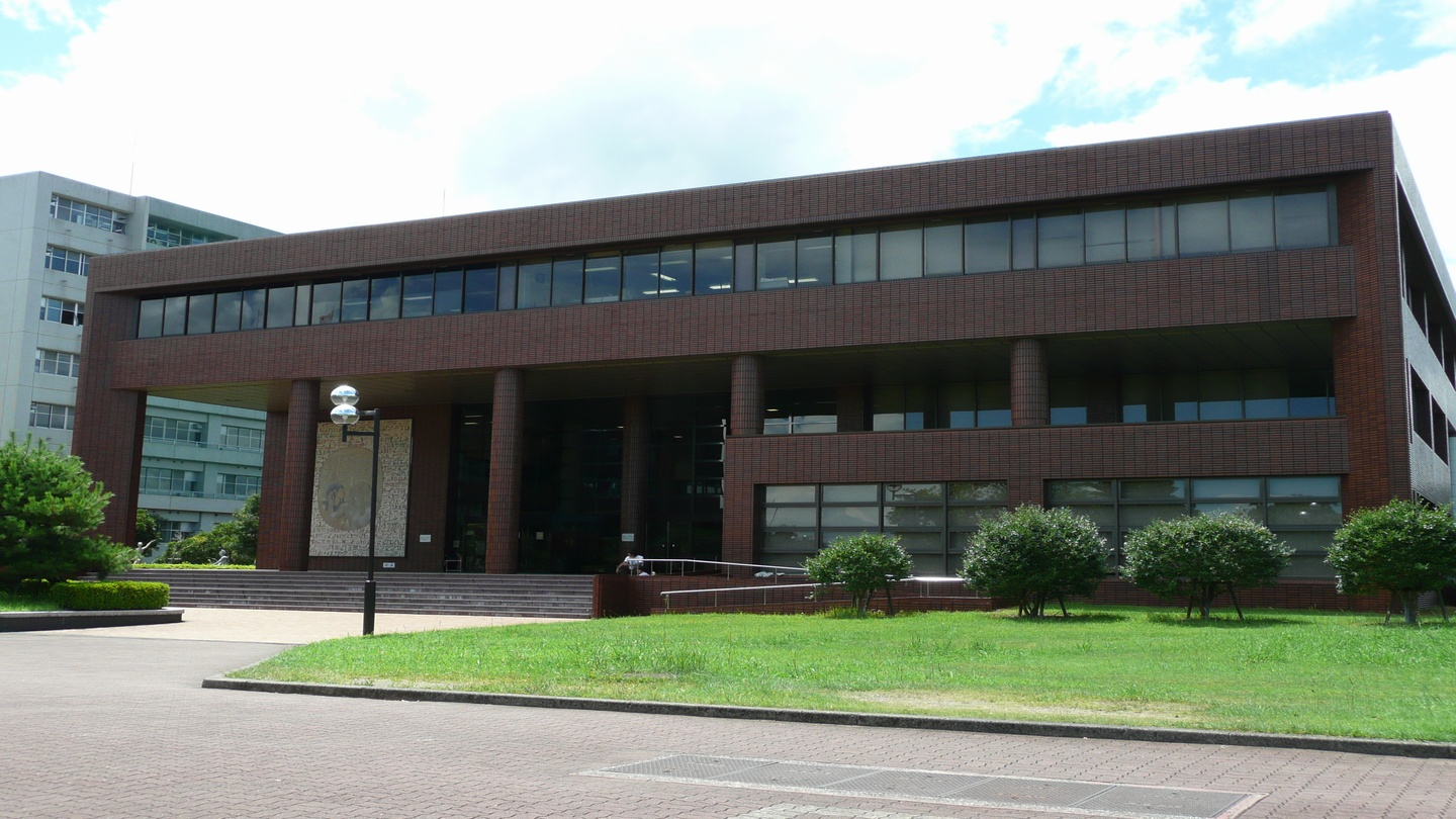 University of Miyazaki library